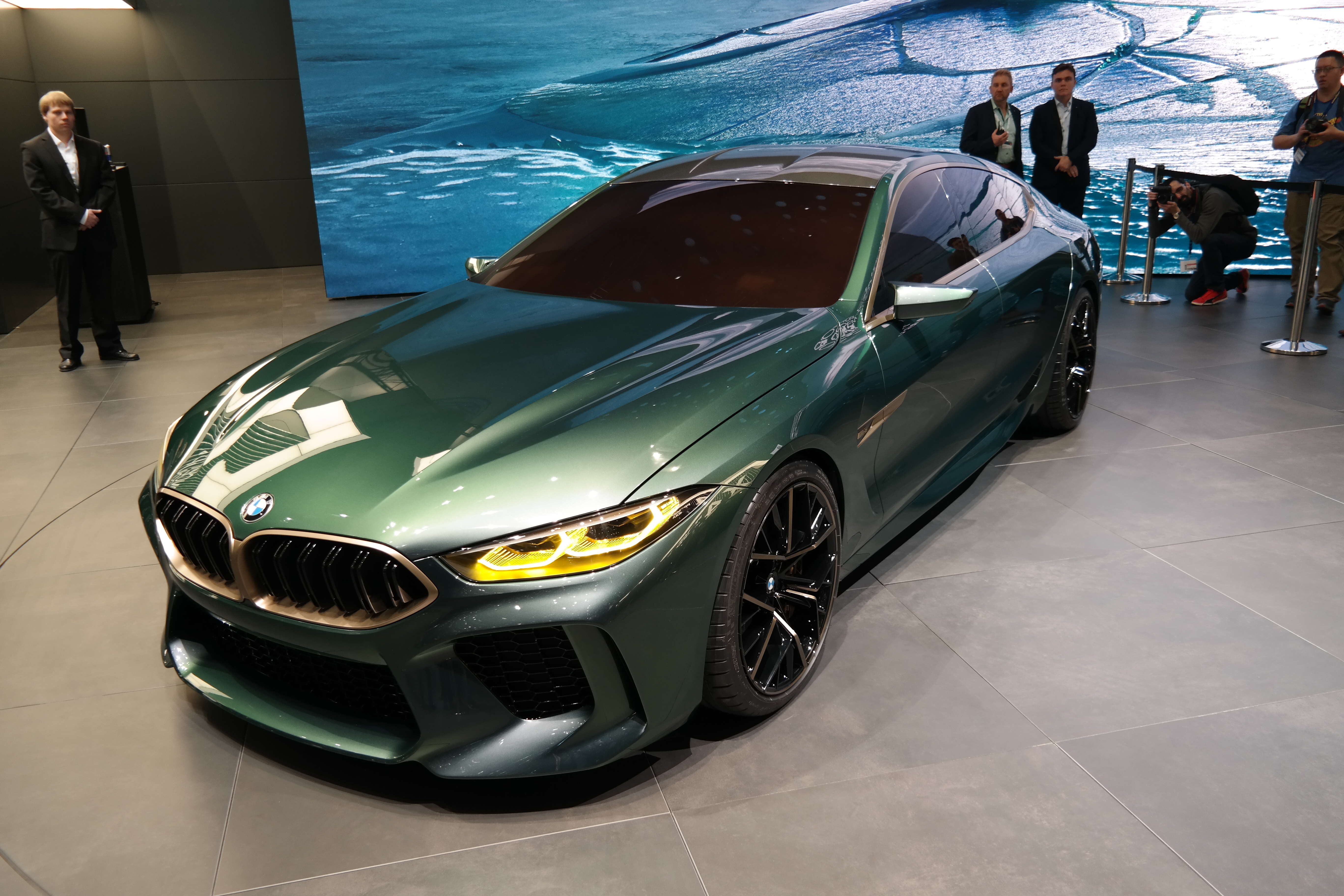 Geneva Motor Show 2018 (photo taken on the first press day)